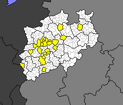 Municipalities of North Rhine-Westphalia